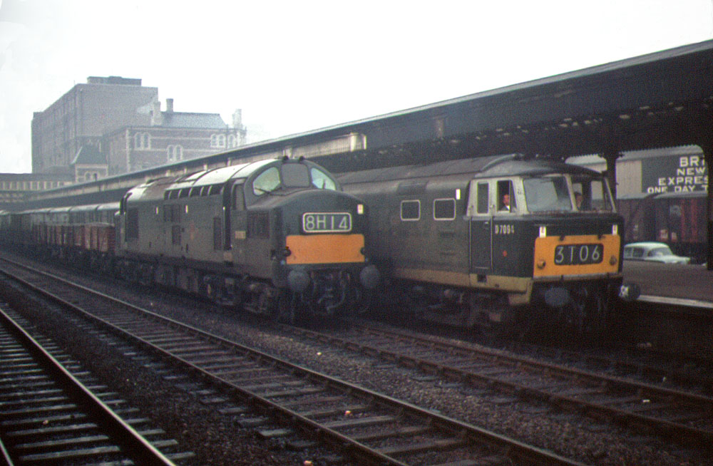 The one with the nose is a Class 37; the one without it a Class 35 Hymek diesel hydraulic.